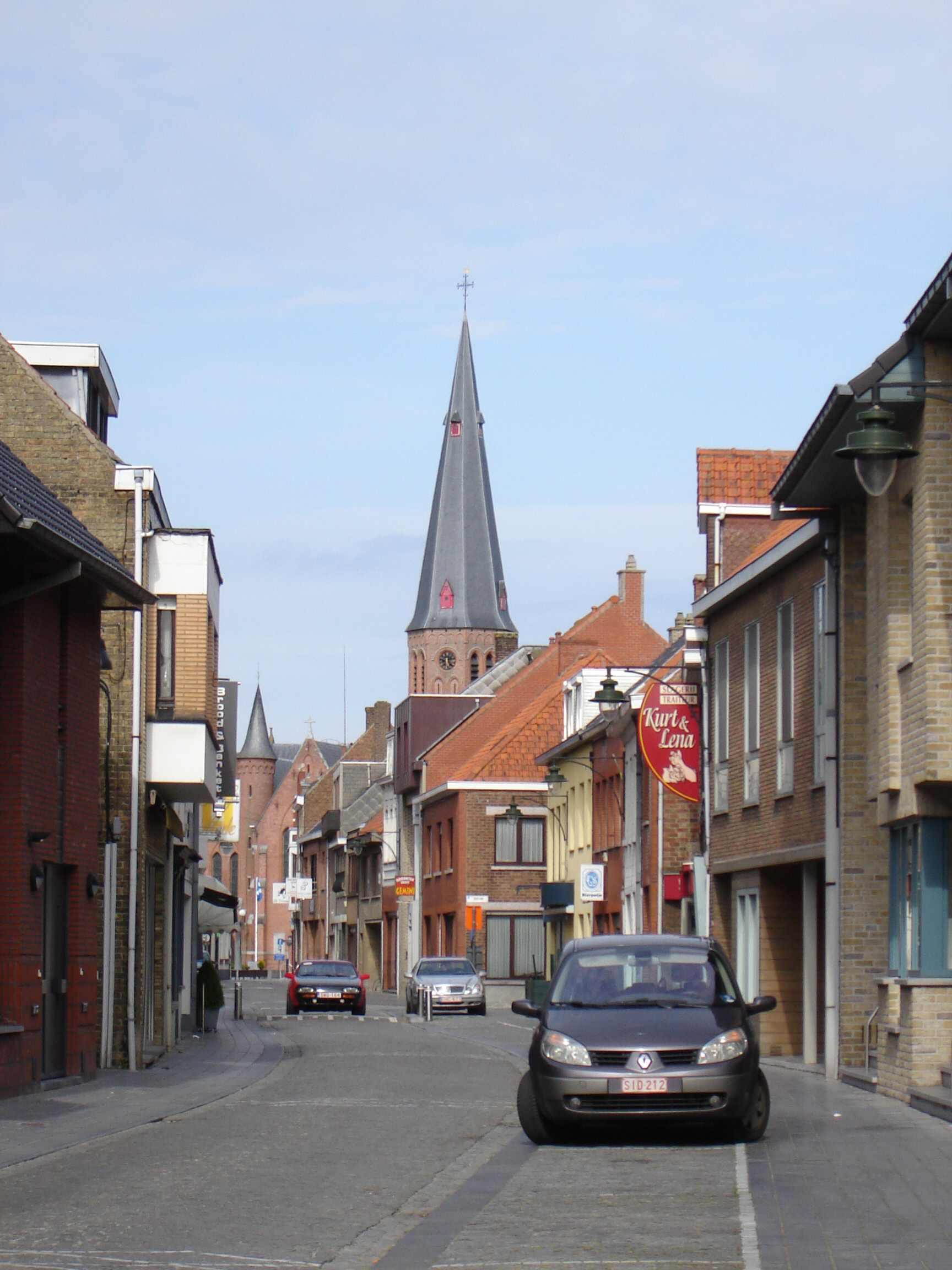 Tower Sint Martinus Church in Koekelare, West-Flanders, Belgium, seen from the old Dorpsstraat